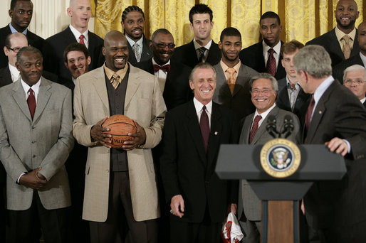 NBA Champs Miami Heat at the White House with President Bush